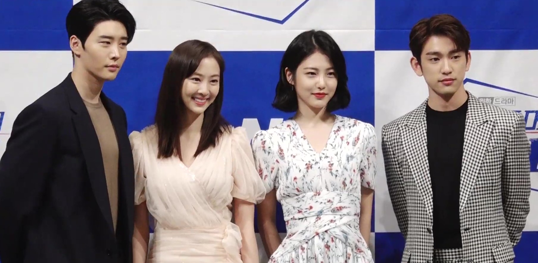 "He Is Psychometric" cast at the press conference, 5 March 2019